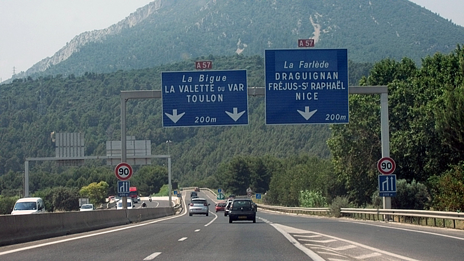 Junction between A570 and A57 autoroutes towards Toulon and Nice.